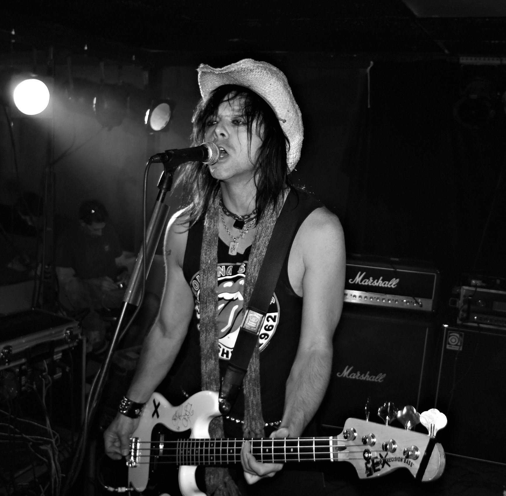 L.A. Guns guitarist Scott Griffin (bassist) performing in 2011. image by Ted Van Pelt- National Press Photographers Association Regional Chair for Region 3